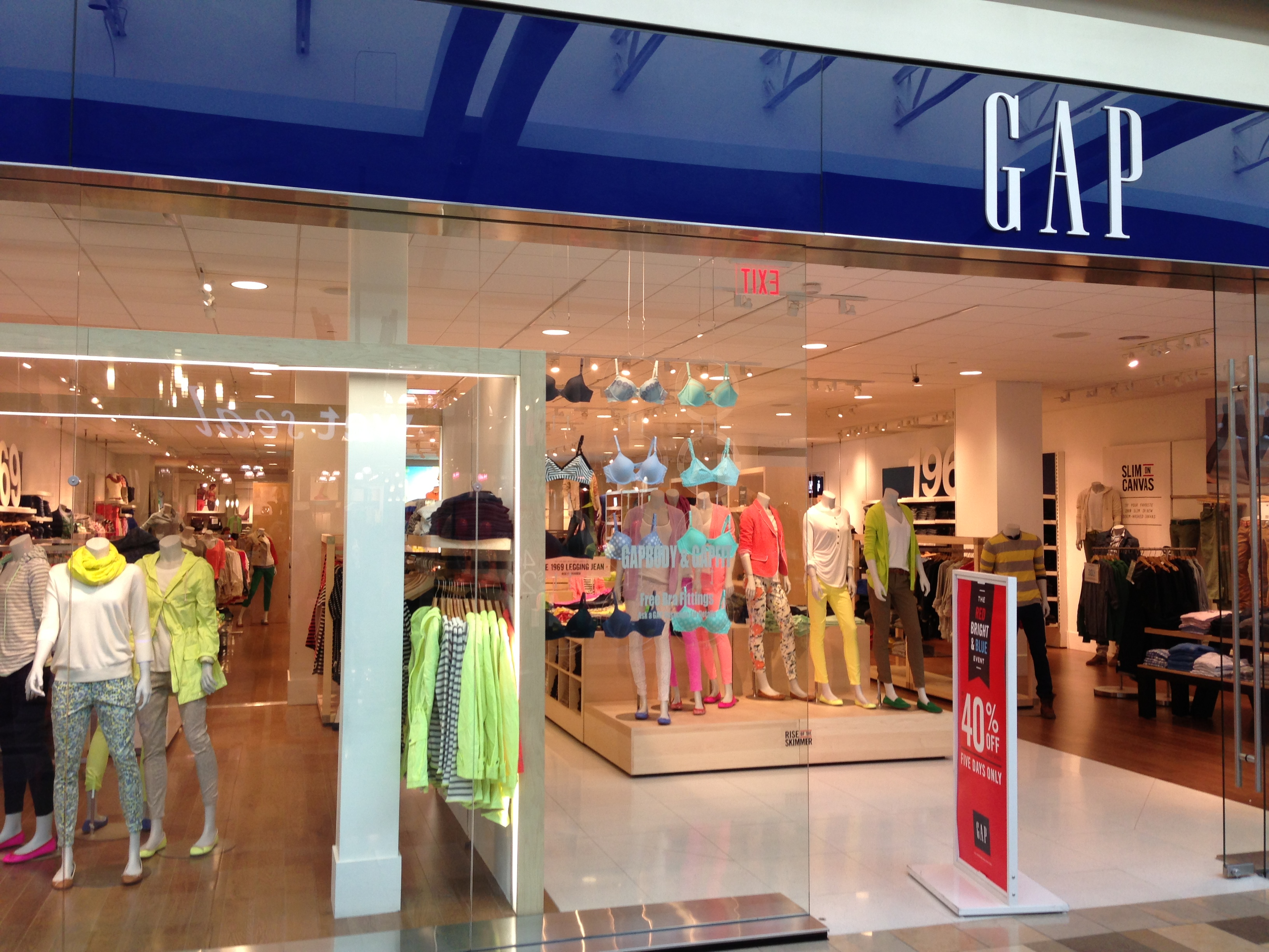 Gap at North East Mall in the Dillard's wing.